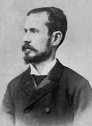 Dezső Perczel, Hungarian Minister of the Interior